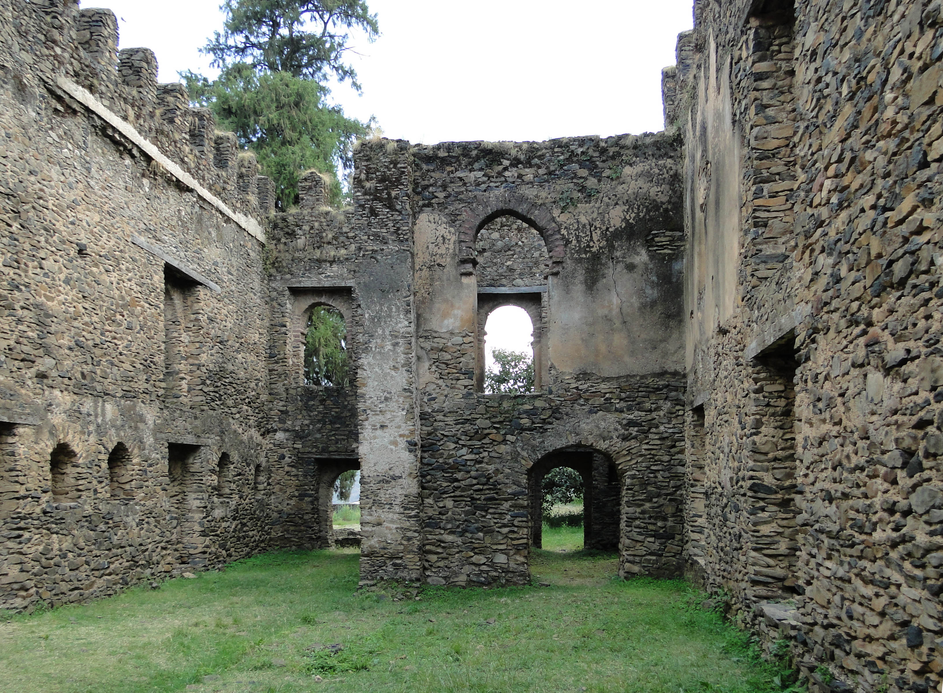 Bakaffa's Palace (also named Dawit's Hall) in the Fasil Ghebbi, Gondar, Ethiopia